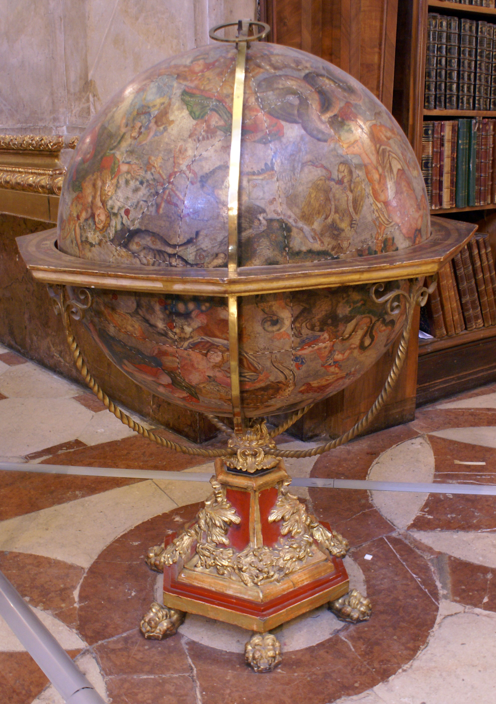 Celestial globe by Vincenzo Maria Coronelli, National Library, Vienna. Depicted are constellations, stars and comet paths.